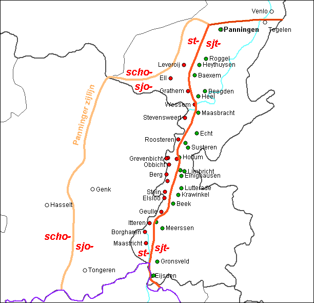 Location of the dialect isogloss Panninger Linie in Dutch and Belgian Limburg. Compiled from: Jos. Schrijnen. Benrather-, uerdinger- en panningerlinie. Tijdschrift voor Nederlandse Taal- en Letterkunde. Jaargang 21. E.J. Brill, Leiden 1902 J. Goossens, Die Gliederung des Südniederfränkischen, in Rheinische Vierteljahrsblätter, 30 (1965), p. 79-94 José Cajot, Het Limburgs Dialect van de Voerenaren (met de misvatting van een evolutieschets) (Mededelingen van de Vereniging voor Limburgse Dialect- en Naamkunde, Nr. 31). Hasselt 1985 Herman Crompvoets, Meijel: dialectologisch een scharnier en tevens een zwart gat (Mededelingen van de Vereniging voor Limburgse Dialect- en Naamkunde, Nr. 61). Hasselt 1991